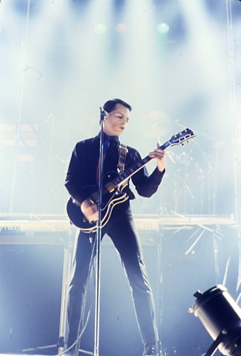 Music Hall, Feb. 18, 1980 Photo by Jean-Luc Ourlin